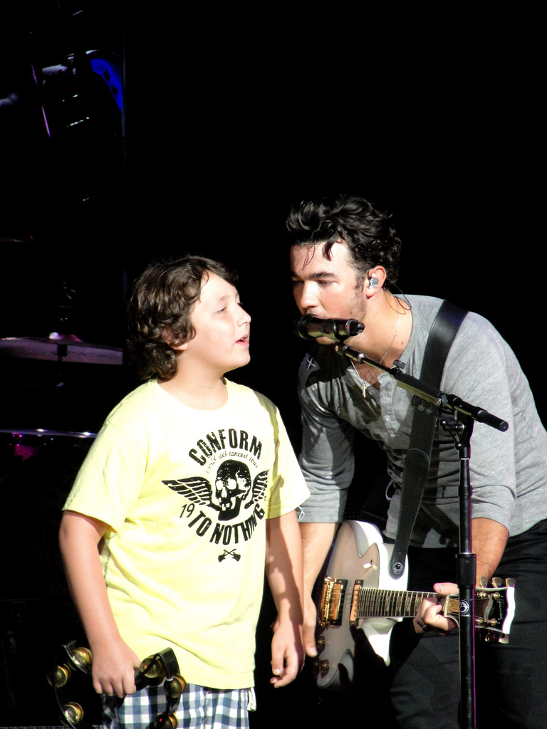 Jonas Brothers Live In Concert and The Cast of Camp Rock 2, September 2nd, 2010.